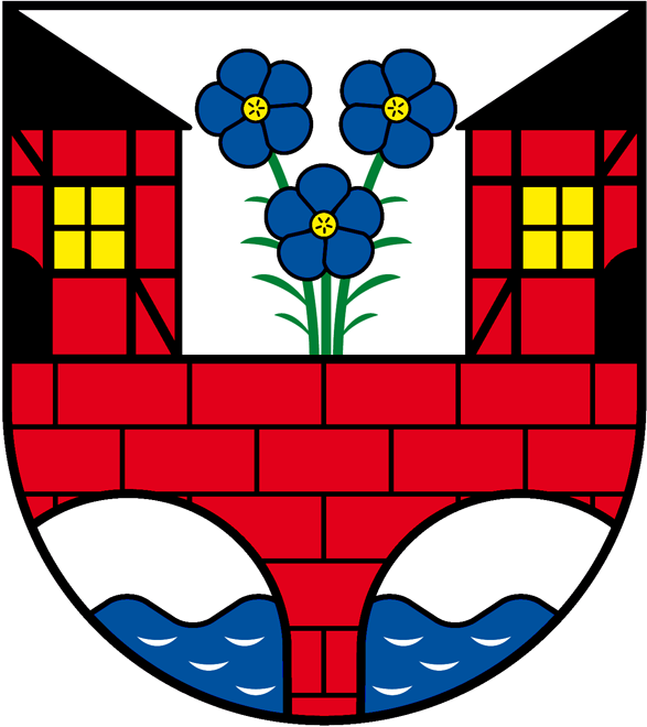 Coat of arms of Herrenhof